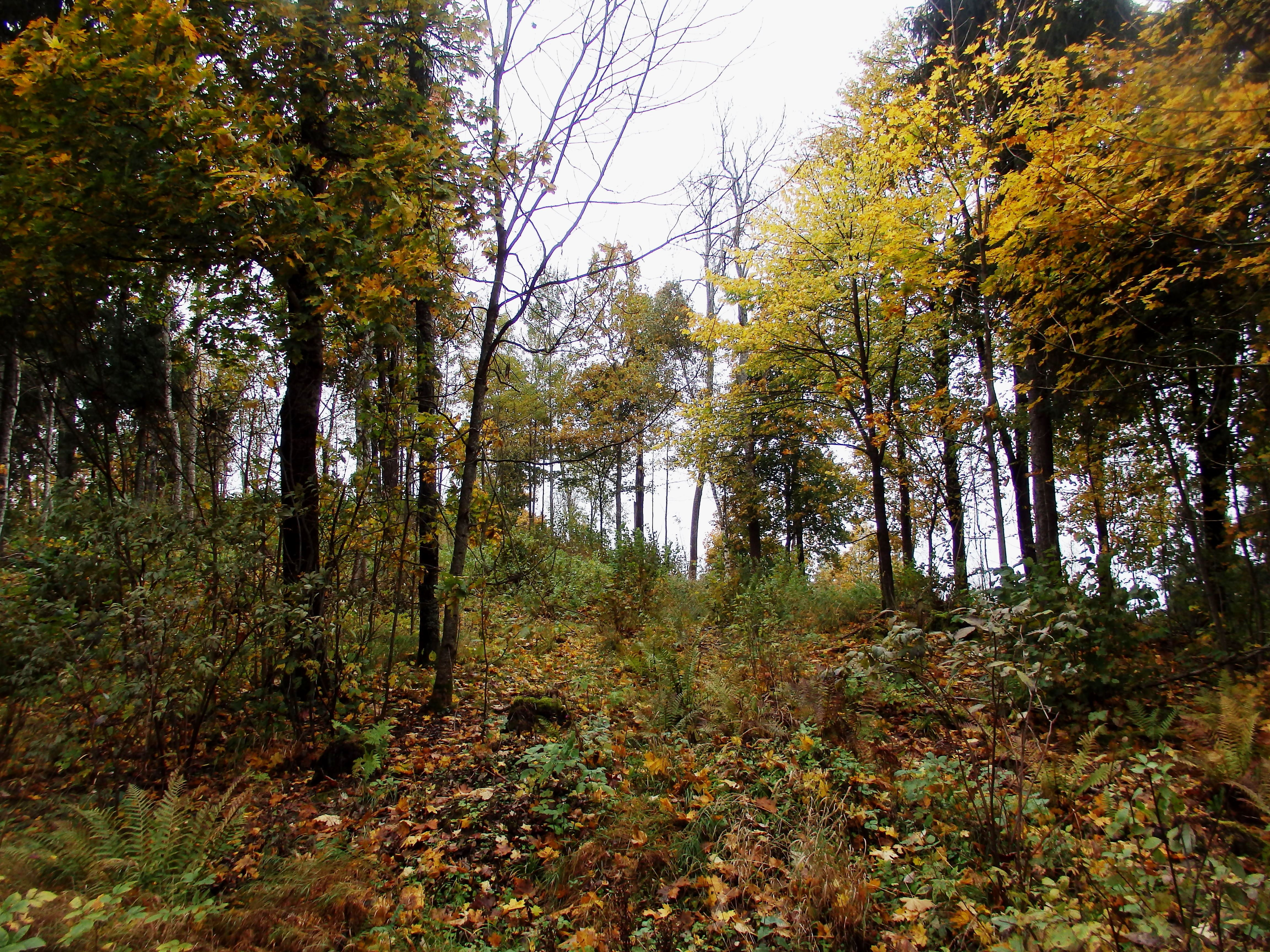 Sirdskalns